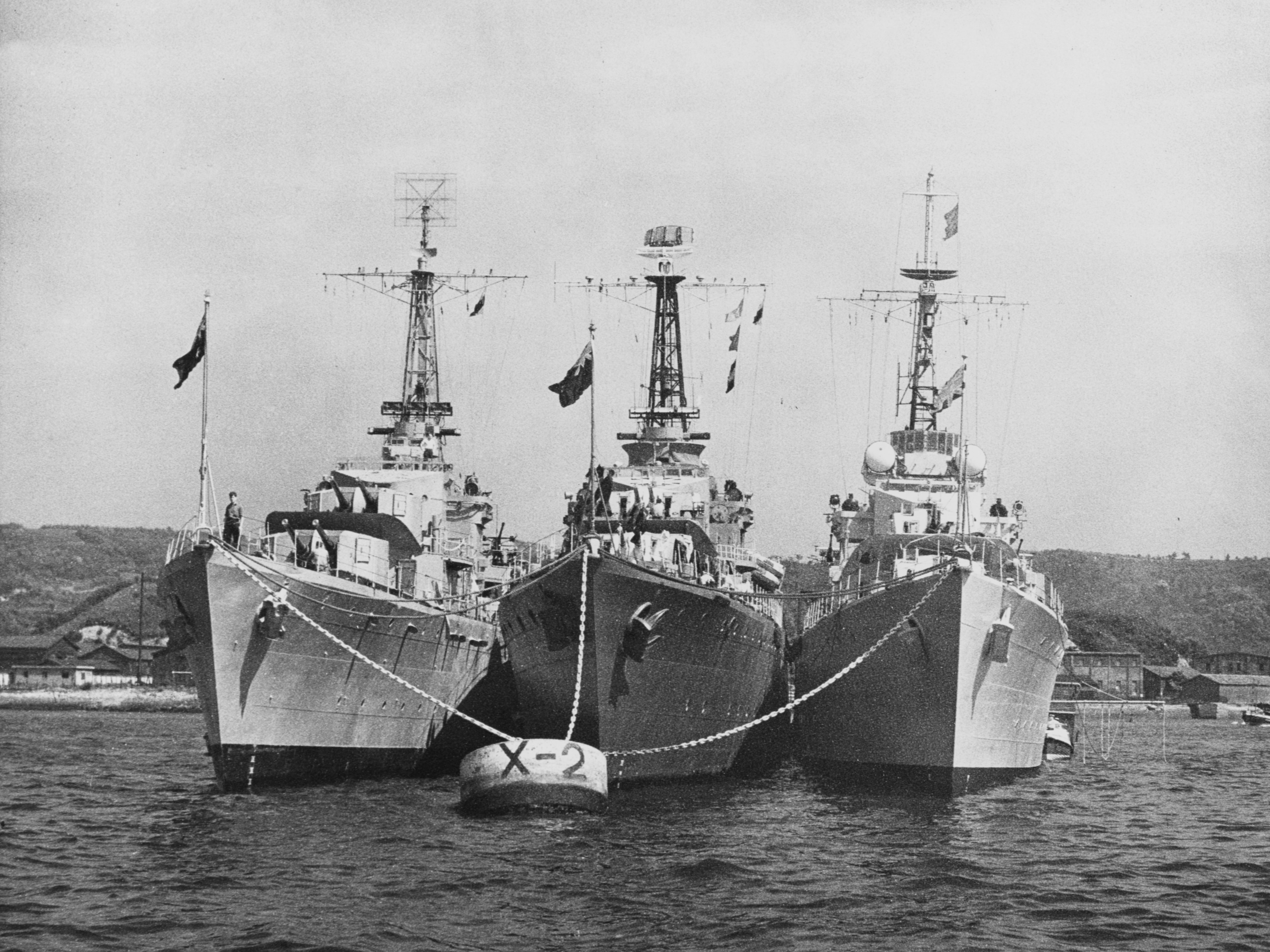 Destroyers of British Commonwealth Navies tied to a mooring bouy at a southern Japanese port (presumably Sasebo), after "an extended period of operations in Korean waters", circa in May 1951. The ships are (from left): HMAS Warramunga (D123) (Australian Destroyer, 1942); HMCS Nootka (DDE 213) (Canadian Destroyer, 1946) and HMS Cockade (D34) (British Destroyer, 1945). All three were assigned to the United Nations Blockading and Escort Force, then commanded by Rear Admiral Allan E. Smith, USN.